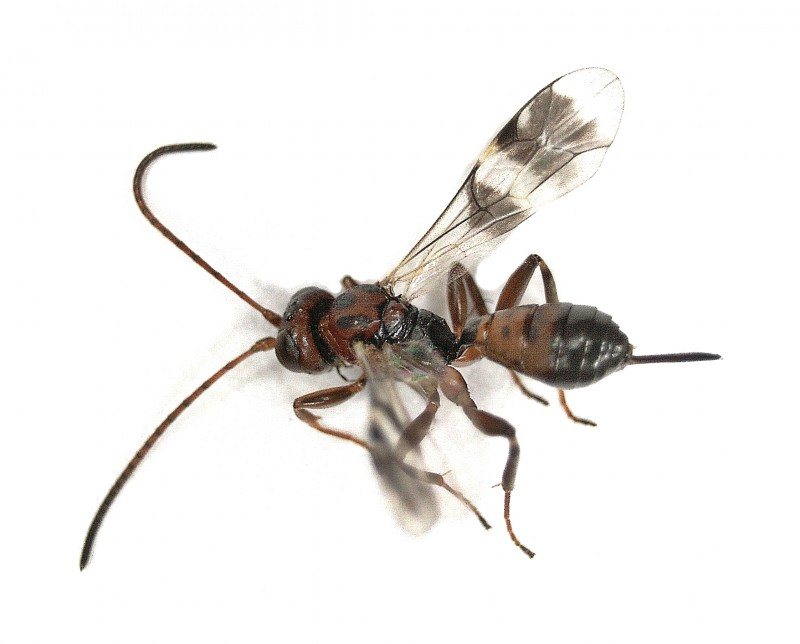 Gelis areator (Ichneumonidae) - (imago), Elst (Gld) - De Park, the Netherlands